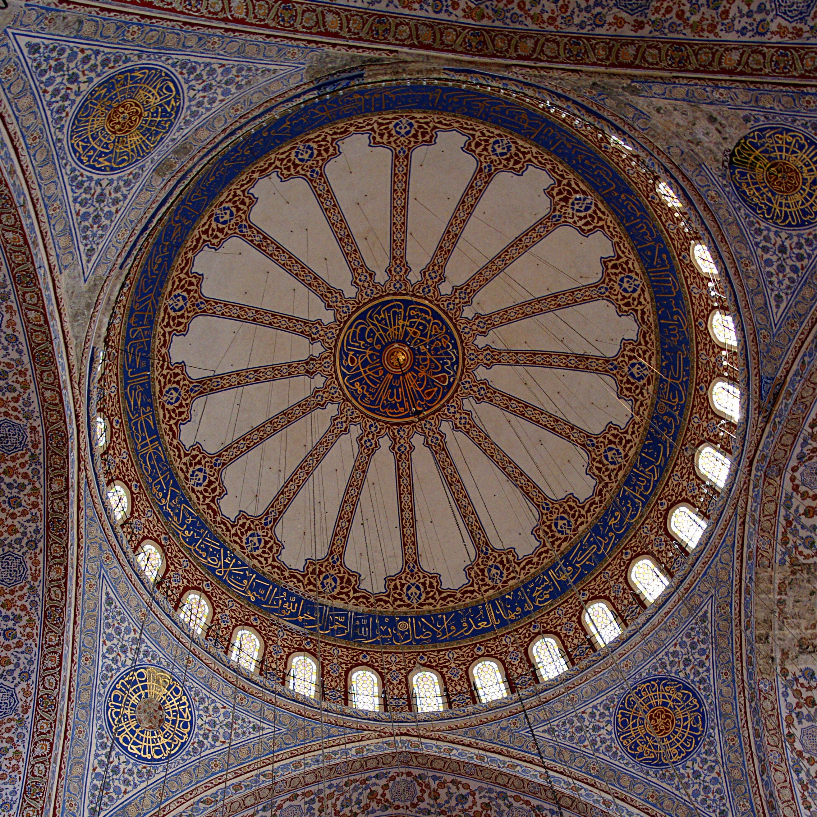 The ceiling of Sultan Ahmed I Mosque (also known as «Blue Mosque») in Istanbul, Turkey (crop)